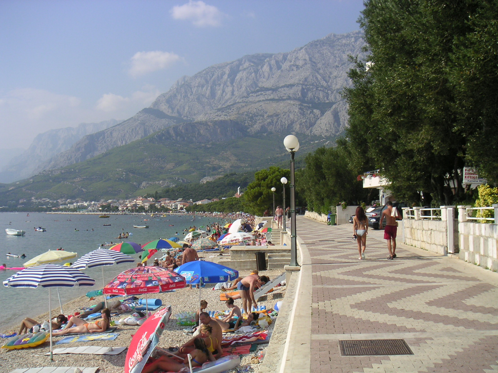 An elegant walkway winds it way along the beach in Tucepi, with breathtaking mountains in the background.